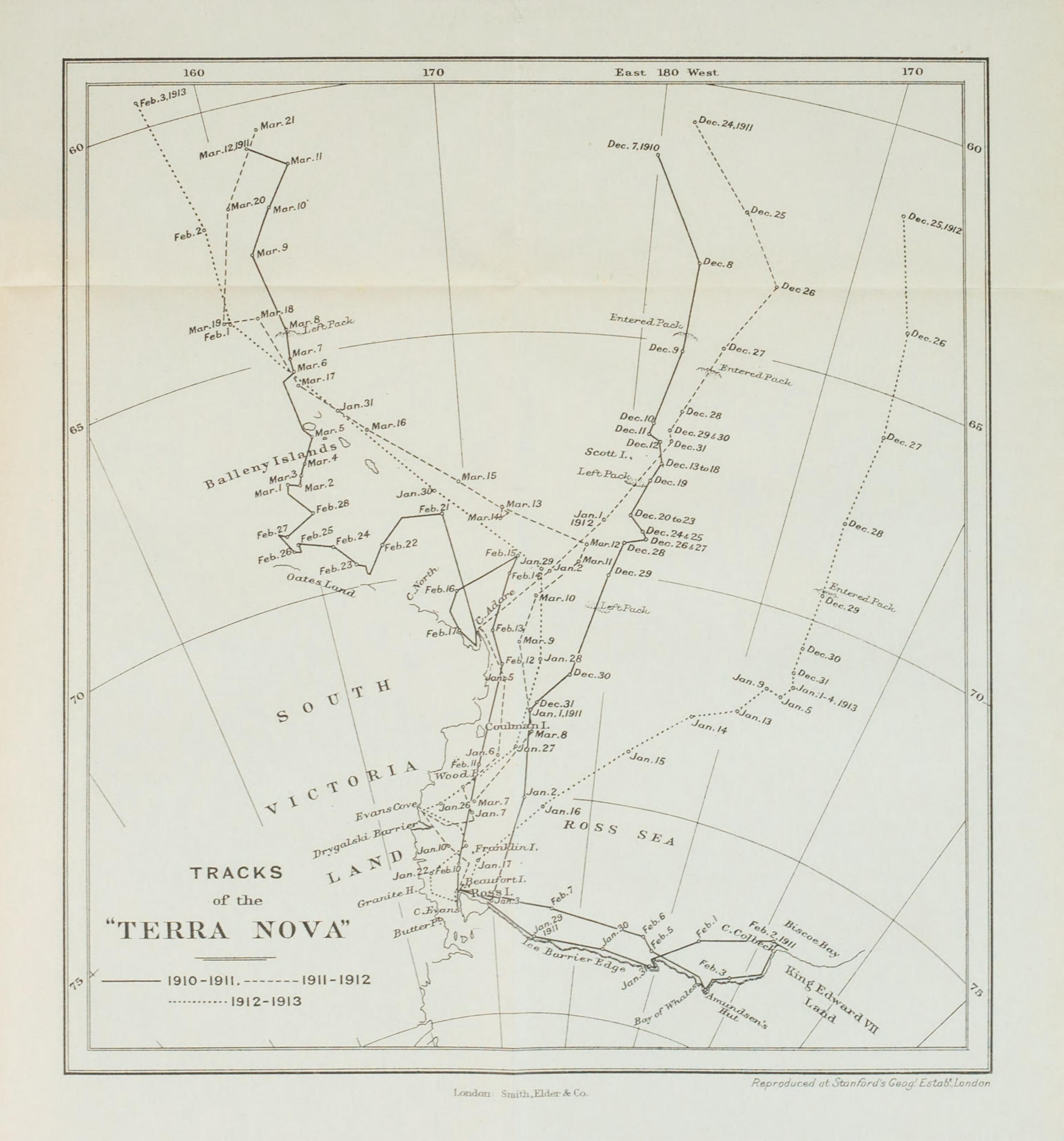 Scott's last expedition /